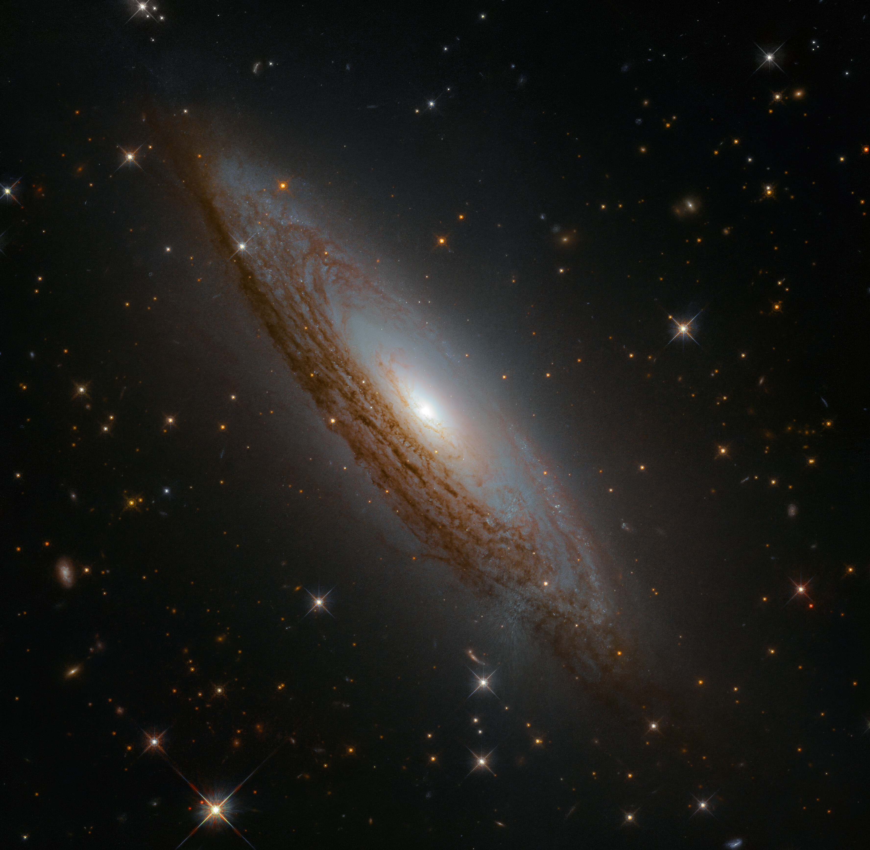 This swirling mass of celestial gas, dust, and stars is a moderately luminous spiral galaxy named ESO 021-G004, located just under 130 million light-years away. This galaxy has something known as an active galactic nucleus. While this phrase sounds complex, this simply means that astronomers measure a lot of radiation at all wavelengths coming from the centre of the galaxy. This radiation is generated by material falling inwards into the very central region of ESO 021-G004, and meeting the behemoth lurking there — a supermassive black hole. As material falls towards this black hole it is dragged into orbit as part of an accretion disc; it becomes superheated as it swirls around and around, emitting characteristic high-energy radiation until it is eventually devoured. The data comprising this image were gathered by the Wide Field Camera 3 aboard the NASA/ESA Hubble Space Telescope.